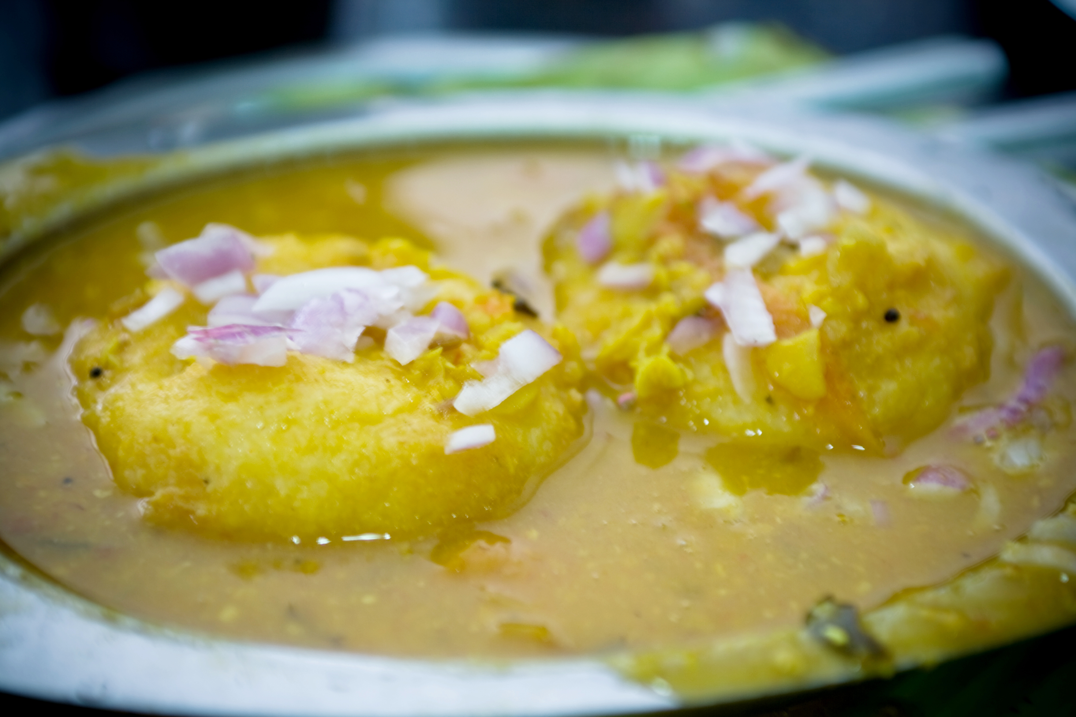 My breakfast during the Chennai Photowalk on Sunday. Nothing could be better than Sambar Vadai on a lazy Sunday morning in a neighbourhood hotel. Canon EOS 400D with Sigma EF 24 - 70 MM F/2.8. Aperture Priority, F/3.5 at 1/8th of a Second.